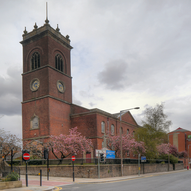 Former parish church of St George, St George's Road, Bolton, Greater Manchester, seen from the southwest